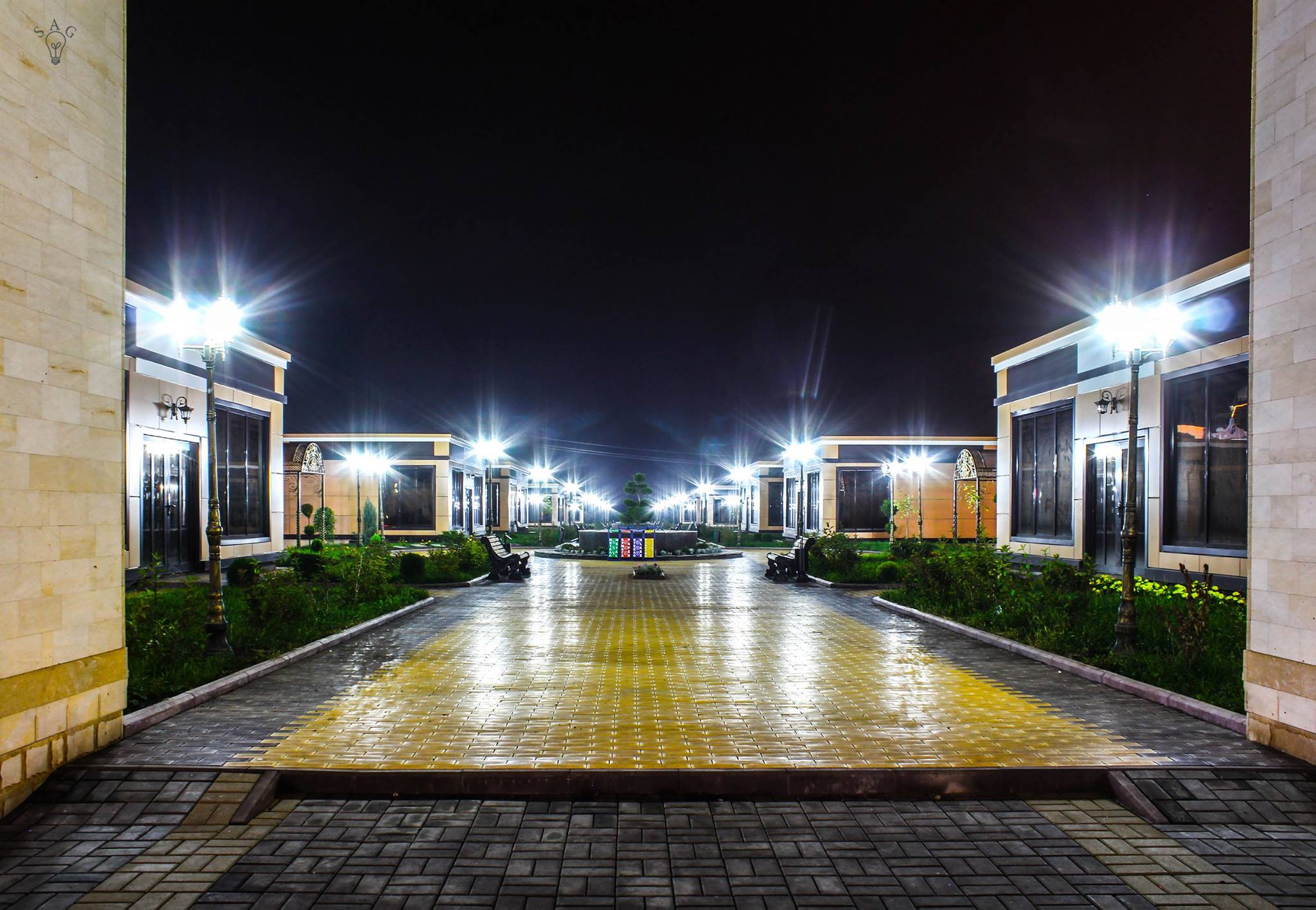 Avenue of sport glory in Magas